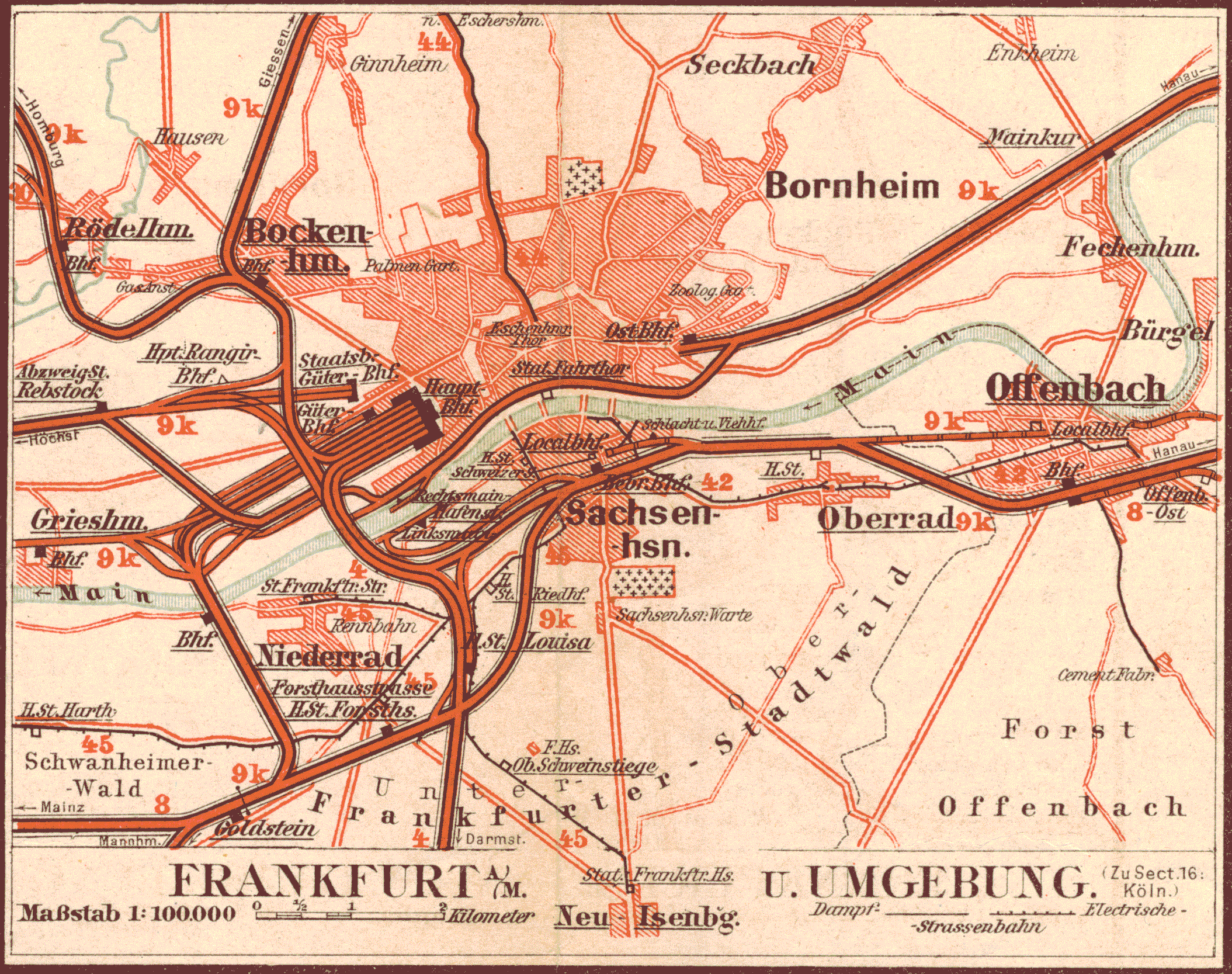 old railway map of Frankfurt (Main)